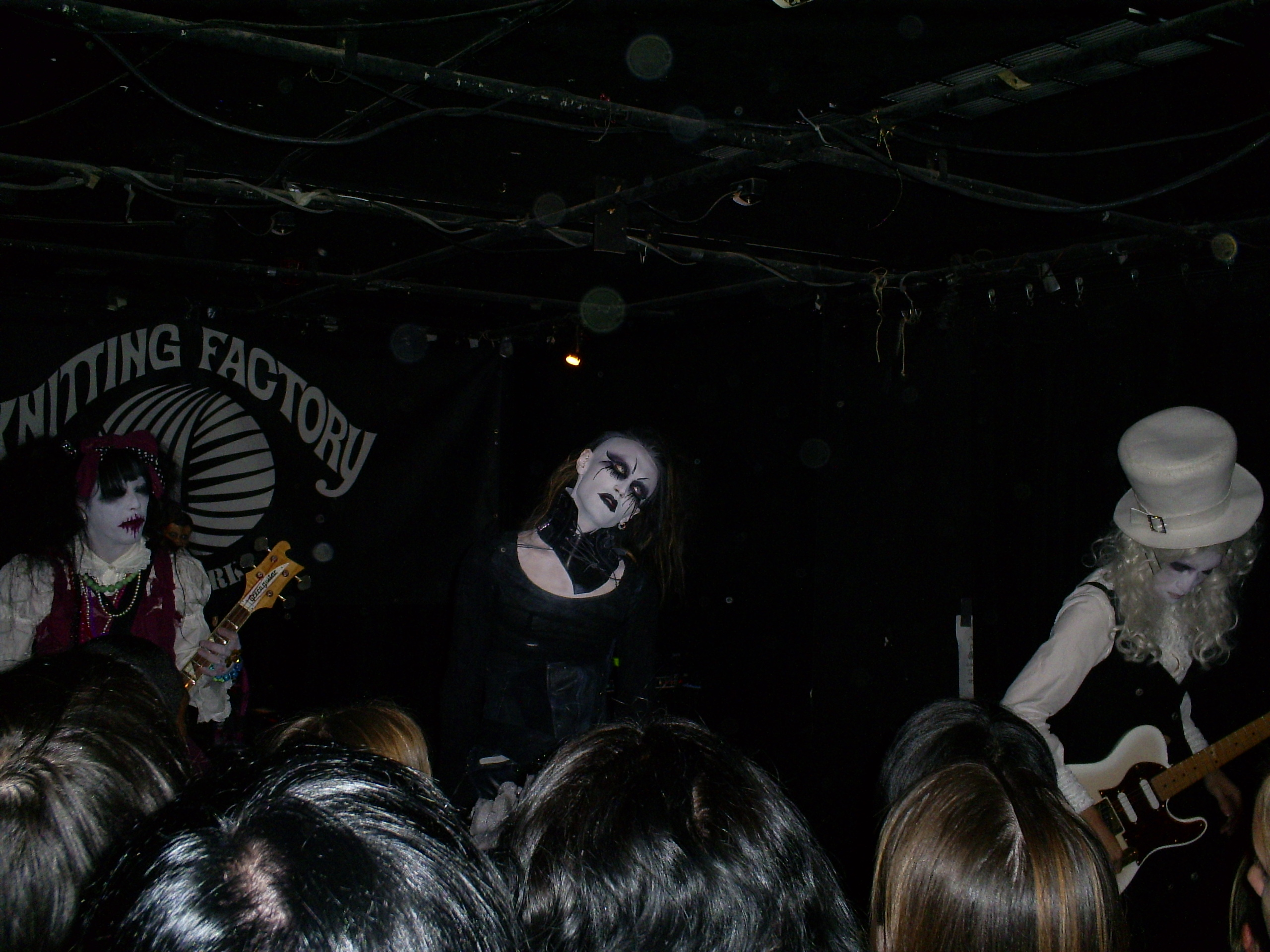 Photo taken by me of The Candy Spooky Theater playing live at the Knitting Factory in NYC on 2007-21-5.